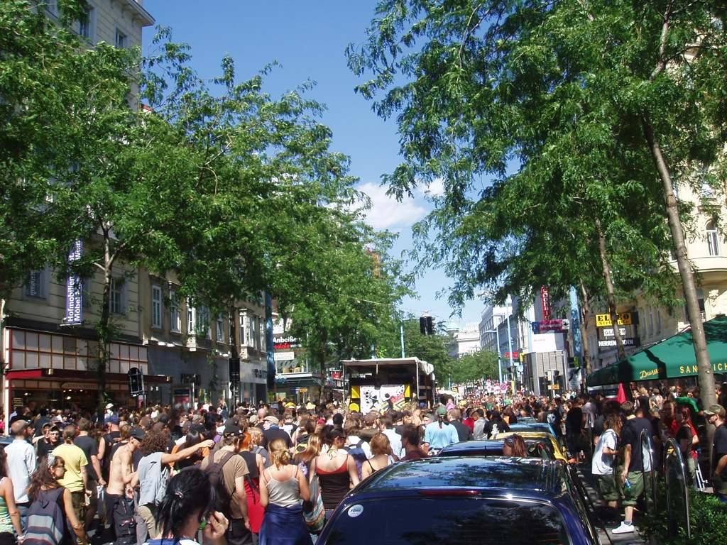 Freeparade 2007, Mariahilf, sixth district of Vienna